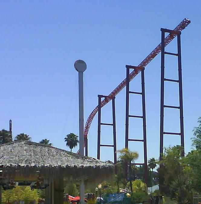 Vertical Velocity Roller Coaster at Six Flags Discovery Kingdom in Vallejo